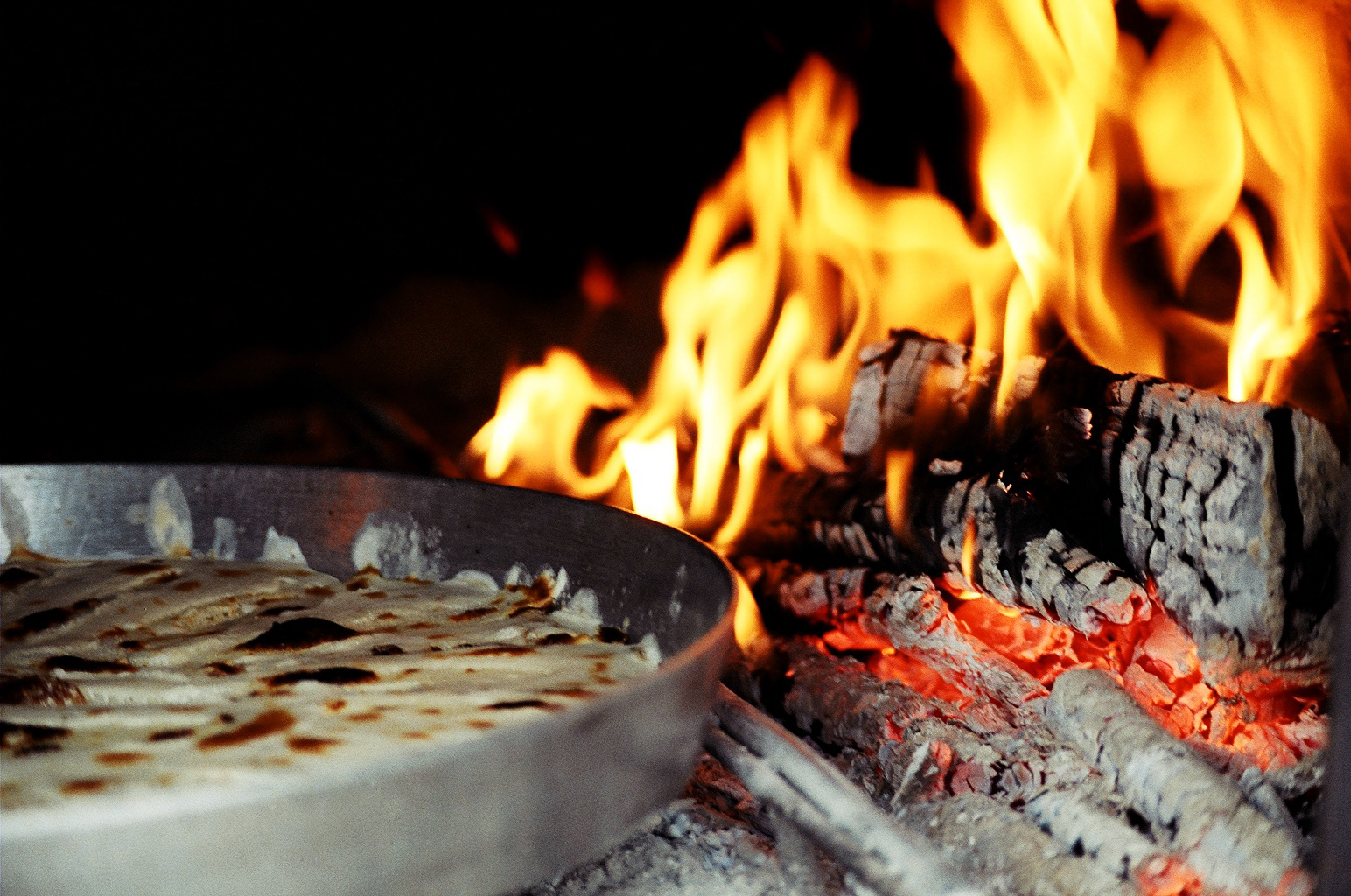 Traditional Food Flija